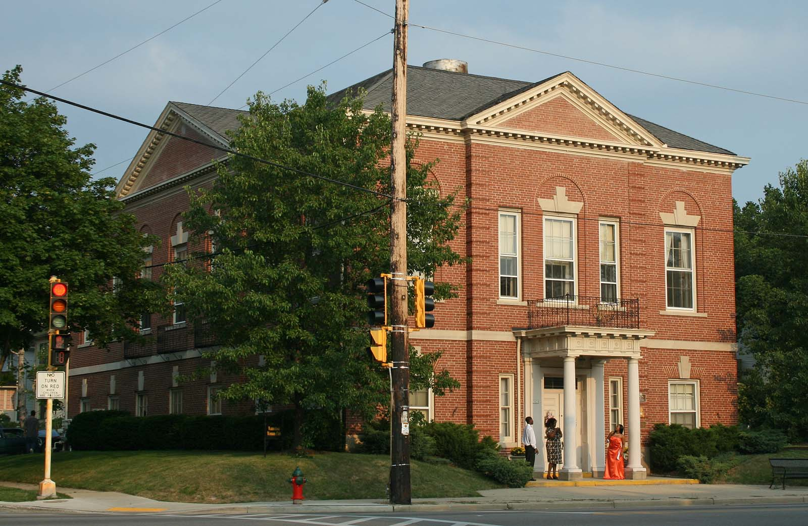 Wauwatosa Woman's Club Clubhouse, Registered Historic Place, Wauwatosa, Wisconsin.